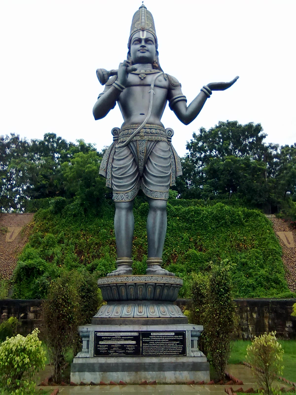 at dwaraka tirumala west godavari dist,andhrapradesh